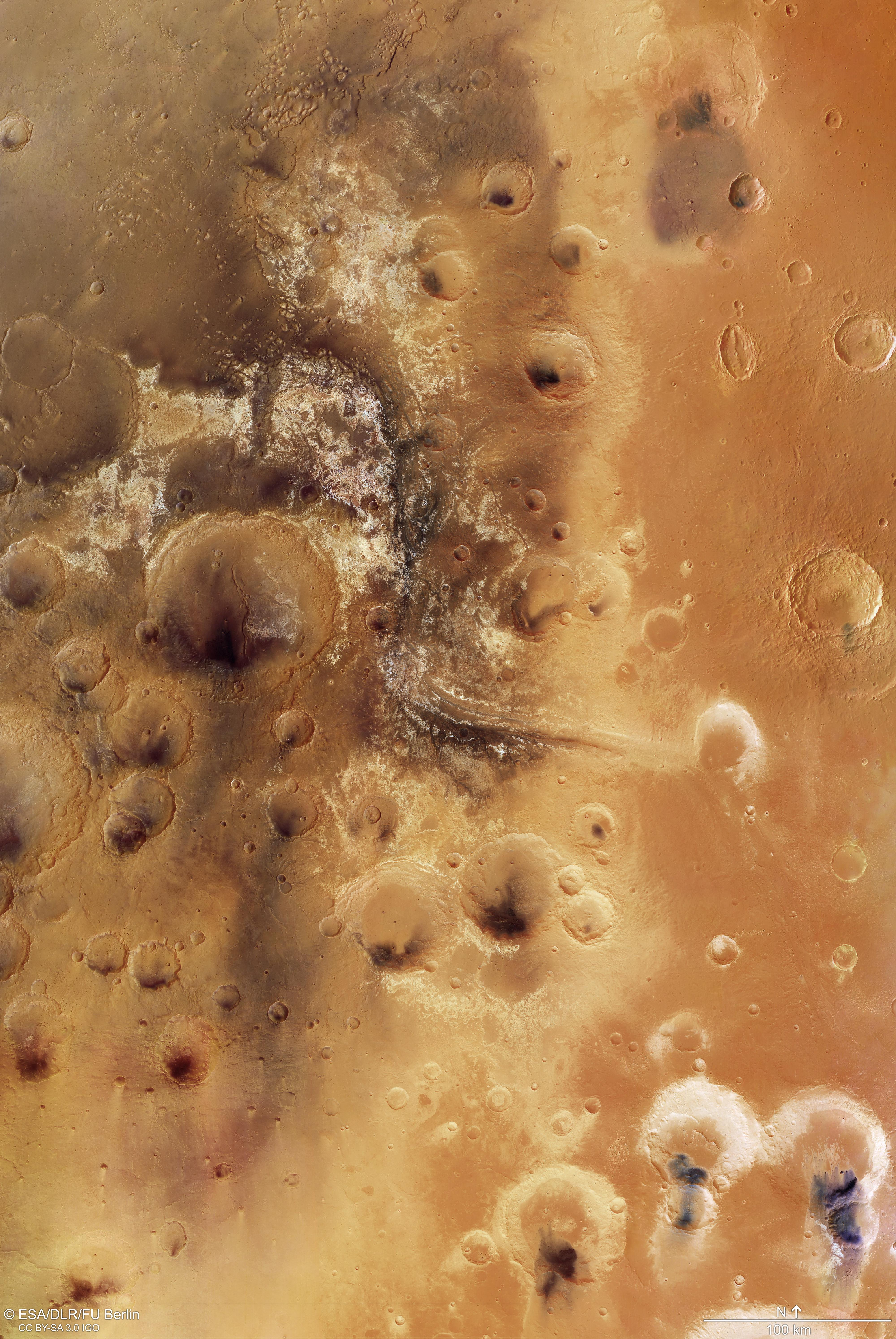 Sculpted by ancient water flowing on the surface, Mawrth Vallis is one of the most remarkable outflow channels on Mars. The valley, once a potentially habitable place, is one of the main features of a region at the boundary between the southern highlands and the northern lowlands. Mawrth Vallis takes centre stage in this image, a bird’s eye view of a 330 000 sq km area surrounding the valley. With a length of 600 km and a depth of up to 2 km, it is one of the biggest valleys on Mars. Huge amounts of water once passed through it, from a higher elevation region, part of which is shown in the lower right of the image, into the northern plains, in the top left. Among the remarkable features are the large exposures of light-toned phyllosilicates (weathered clay minerals) that lie along its course. Phyllosilicates on Mars are evidence of the past presence of liquid water and point to the possibility that habitable environments could have existed on the planet up until 3.6 billion years ago. A dark cap rock, remains of ancient volcanic ash, covers many of the clays and could have protected traces of ancient microbes in the rocks from radiation and erosion. This makes Mawrth Vallis one of the most interesting regions for geologists and astrobiologists alike. It is one of the candidate landing sites for ExoMars 2020, a joint mission between ESA and Russia, with the primary goal of finding out if life once existed on Mars. The name comes from the Welsh word for Mars (“Mawrth”) and the Latin for valley (“Vallis”). This mosaic was created using nine individual images taken by the high-resolution stereo camera on ESA’s Mars Express spacecraft, which has been orbiting Mars since late 2003. It is one of a set of images of this region previously published on 7 July 2016 on the DLR website and the homepage of the Freie Universität Berlin.